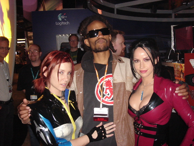 Bianca Beauchamp at E3 2005 portraying Elexis Sinclaire from SiN Episodes